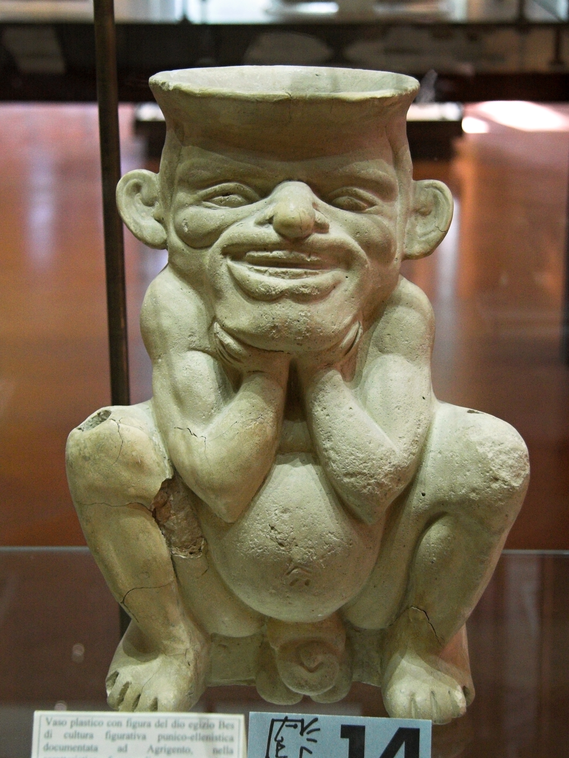 Vessel modeled in the figure of the Egyptian god Bes. Punic-Hellenistic art in Agrigento. Archaeological Museum of Agrigento.